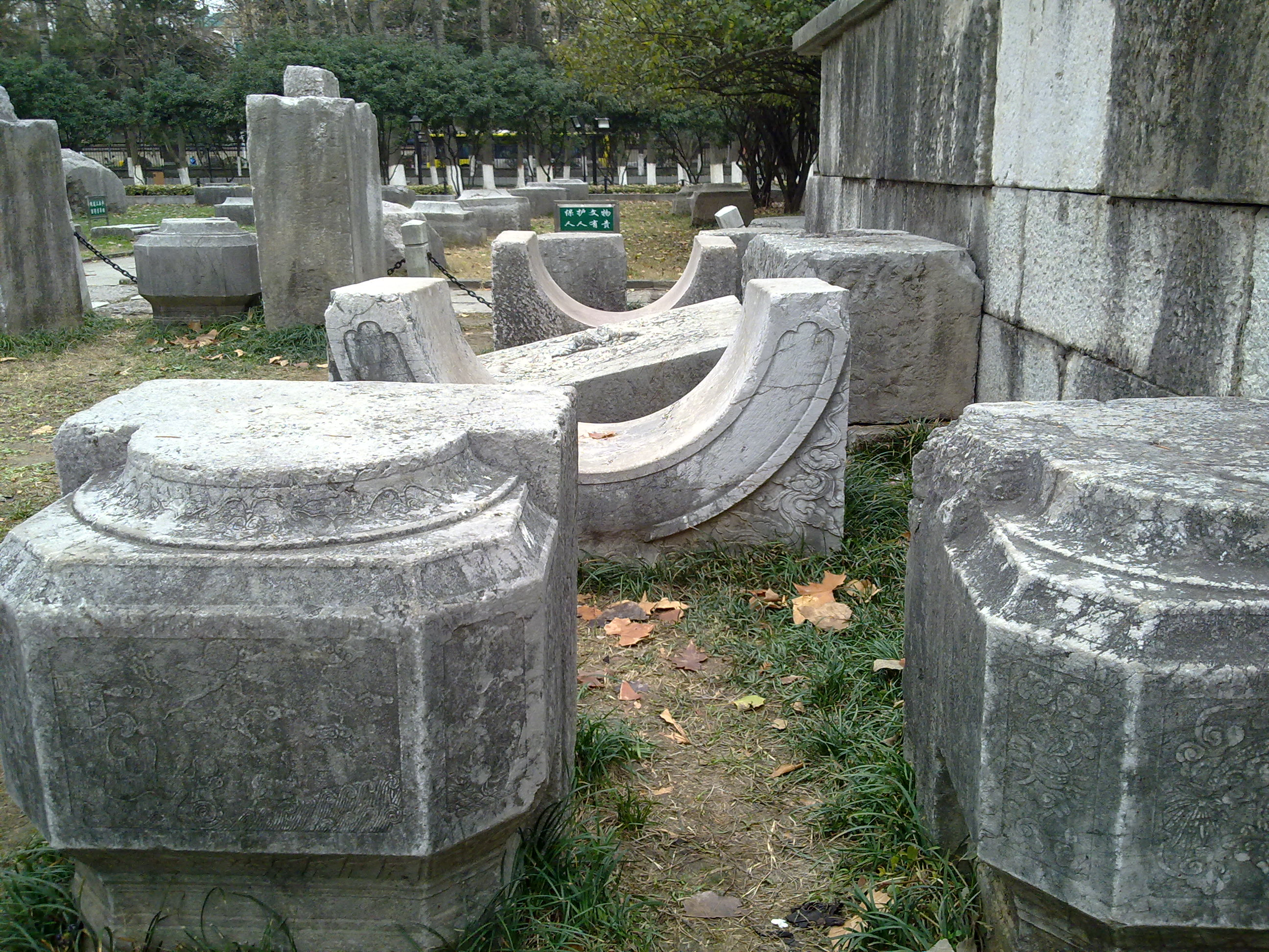 Site of Fengtian Gate (奉天门) of Nanjing Ming Palace